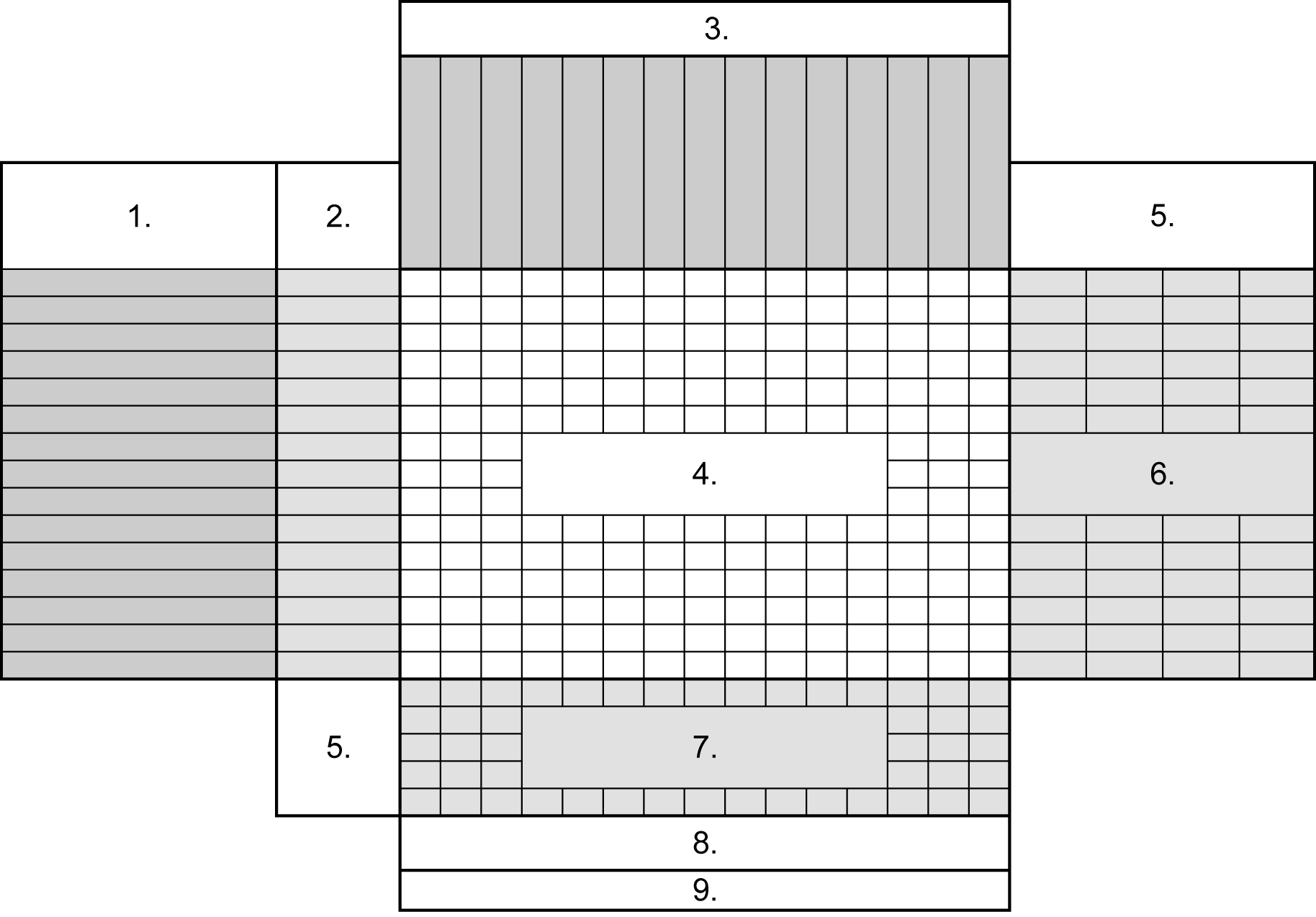 An example of House of Quality including numbers (1-9) for easier relation between text and image.